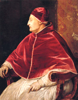 A portrait of Renaissance pope Sixtus IV.